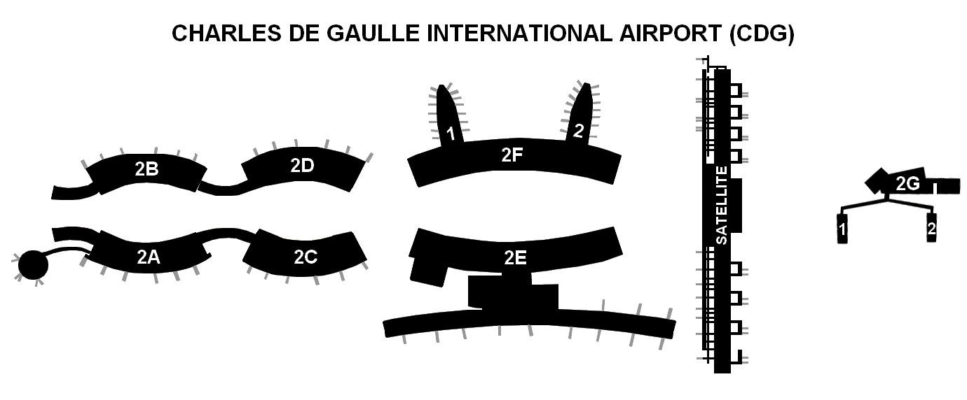 Paris-Charles de Gaulle International Airport terminal 2